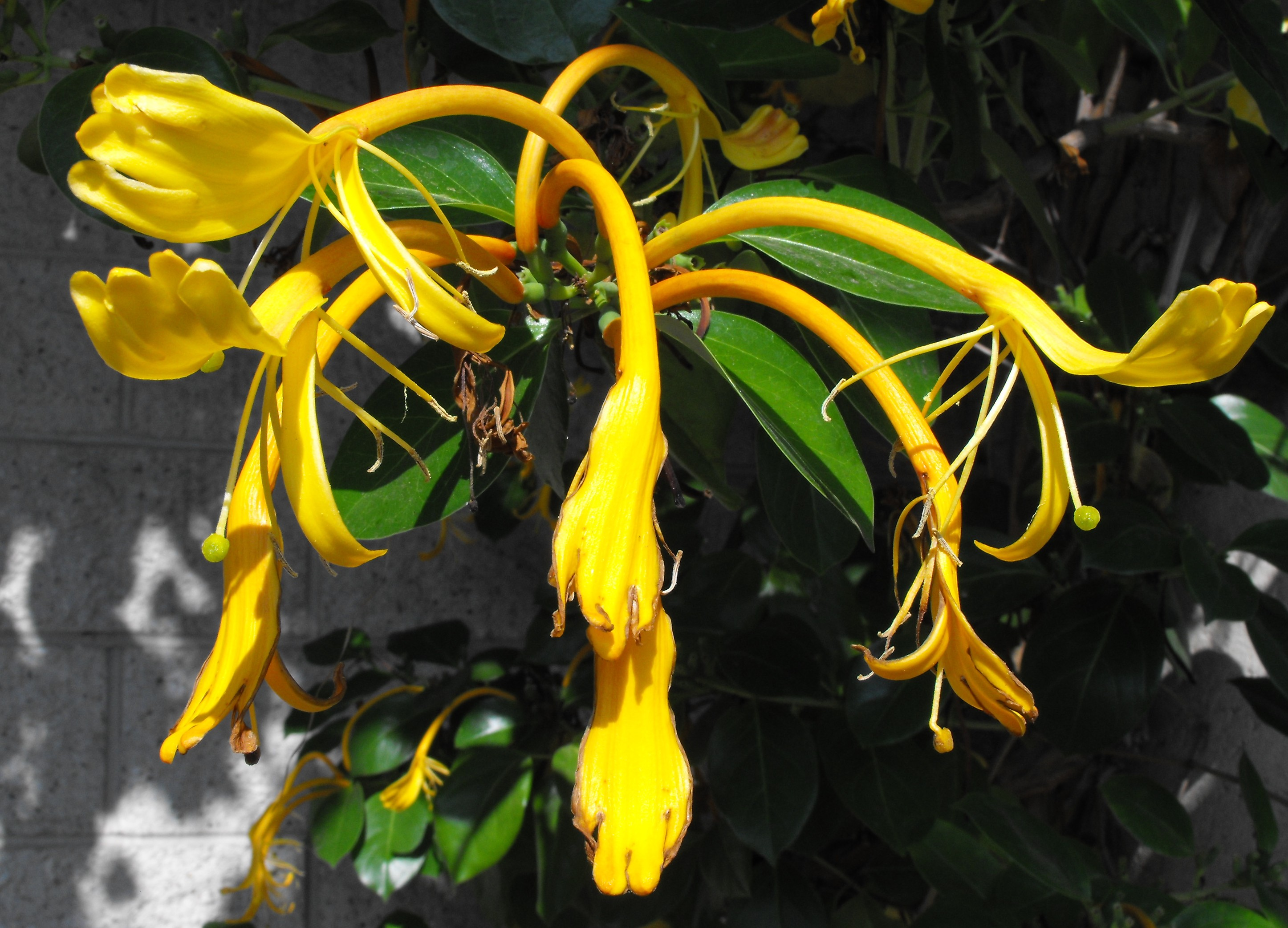 Lonicera hildebrandiana at the Huntington Library & Botanical Gardens in San Marino, California, USA. Identified by sign.